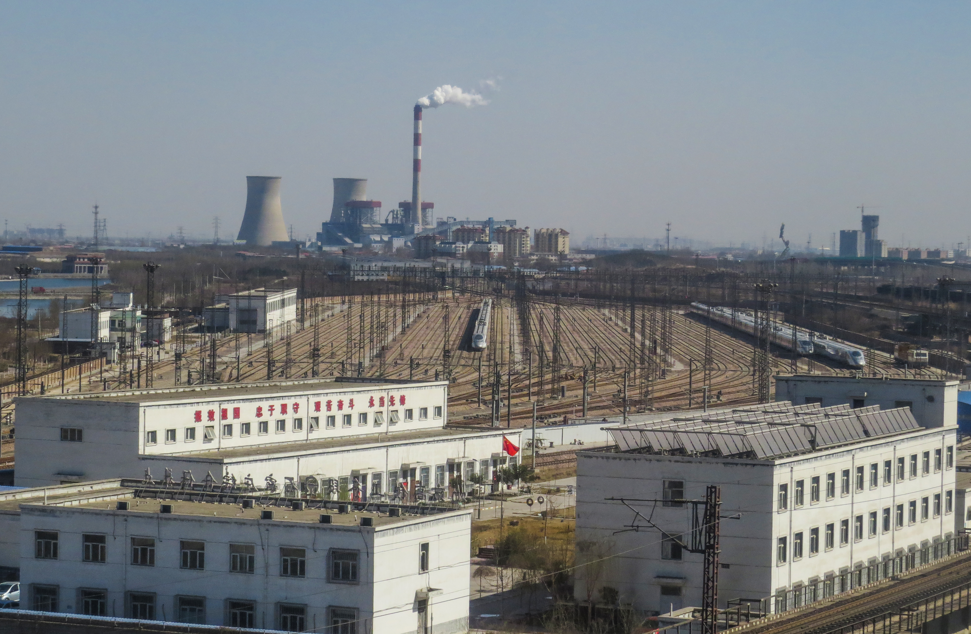 Taken from G672 - in fact, this EMU depot is parallel to the existing Beijing–Guangzhou Railway.